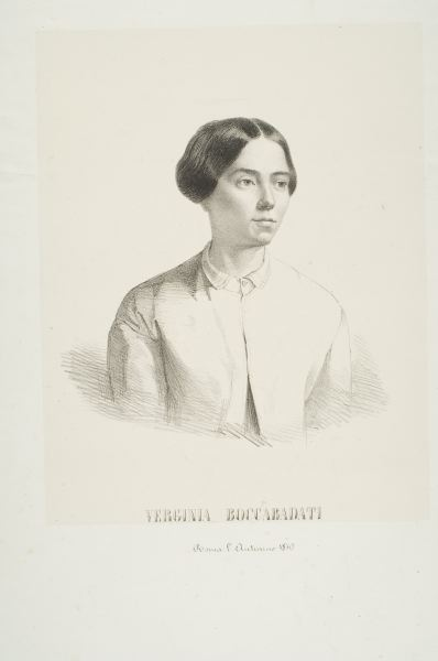 Portrait of Italian soprano Virginia Boccabadati (print)